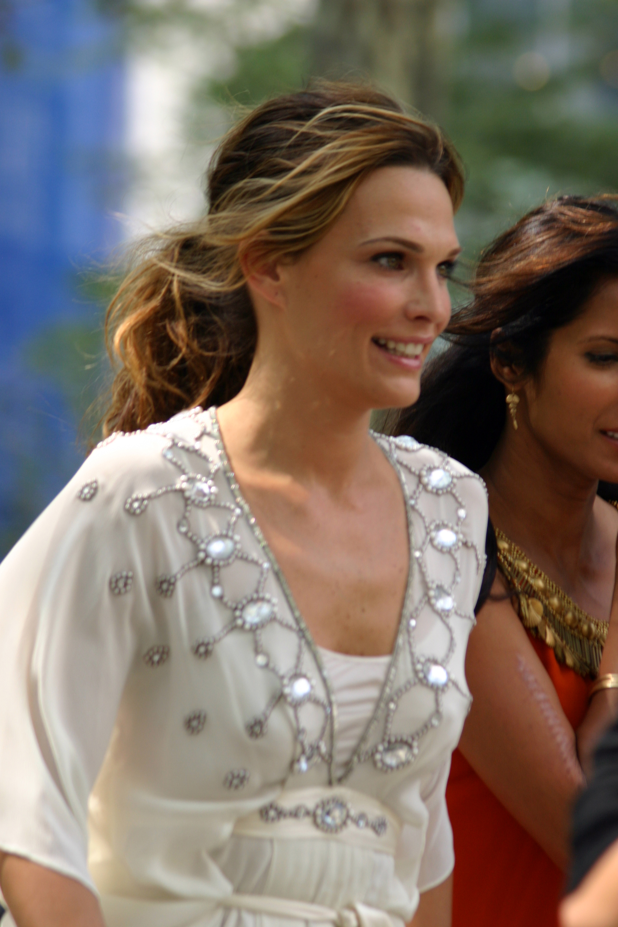 Molly Sims, Mercedes-Benz Fashion Week New York 2007